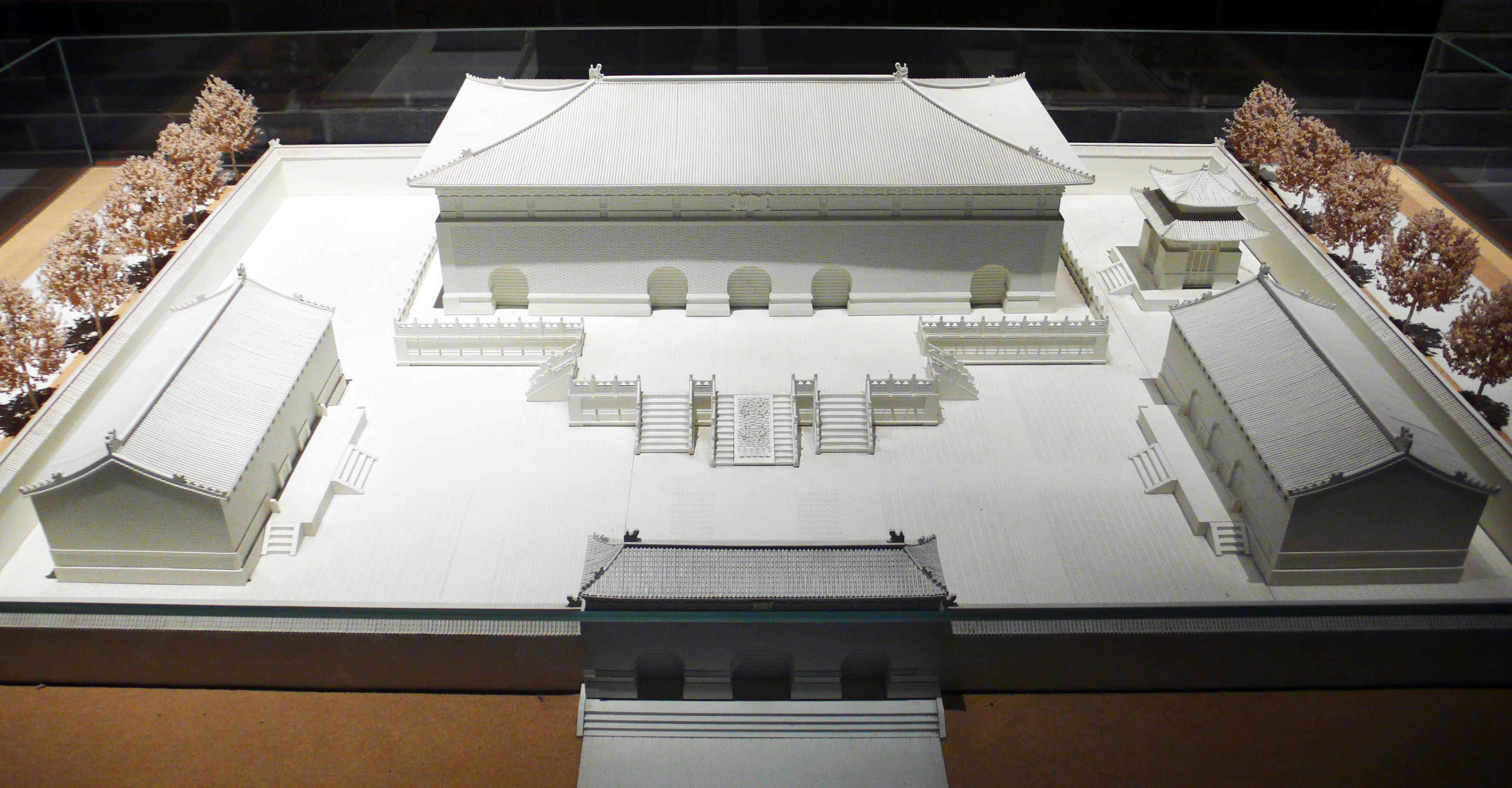 The model of Huangshicheng. Unlike most traditional ancient Chinese architecture which were wooden, Huangshicheng was masonary buildings, for firefighting purposes.